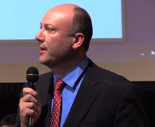 Minnesotan politician and businessperson Marty Seifert at the 2014 Minnesota 4th Congressional District Republican Convention. Screencapped at 00:27.